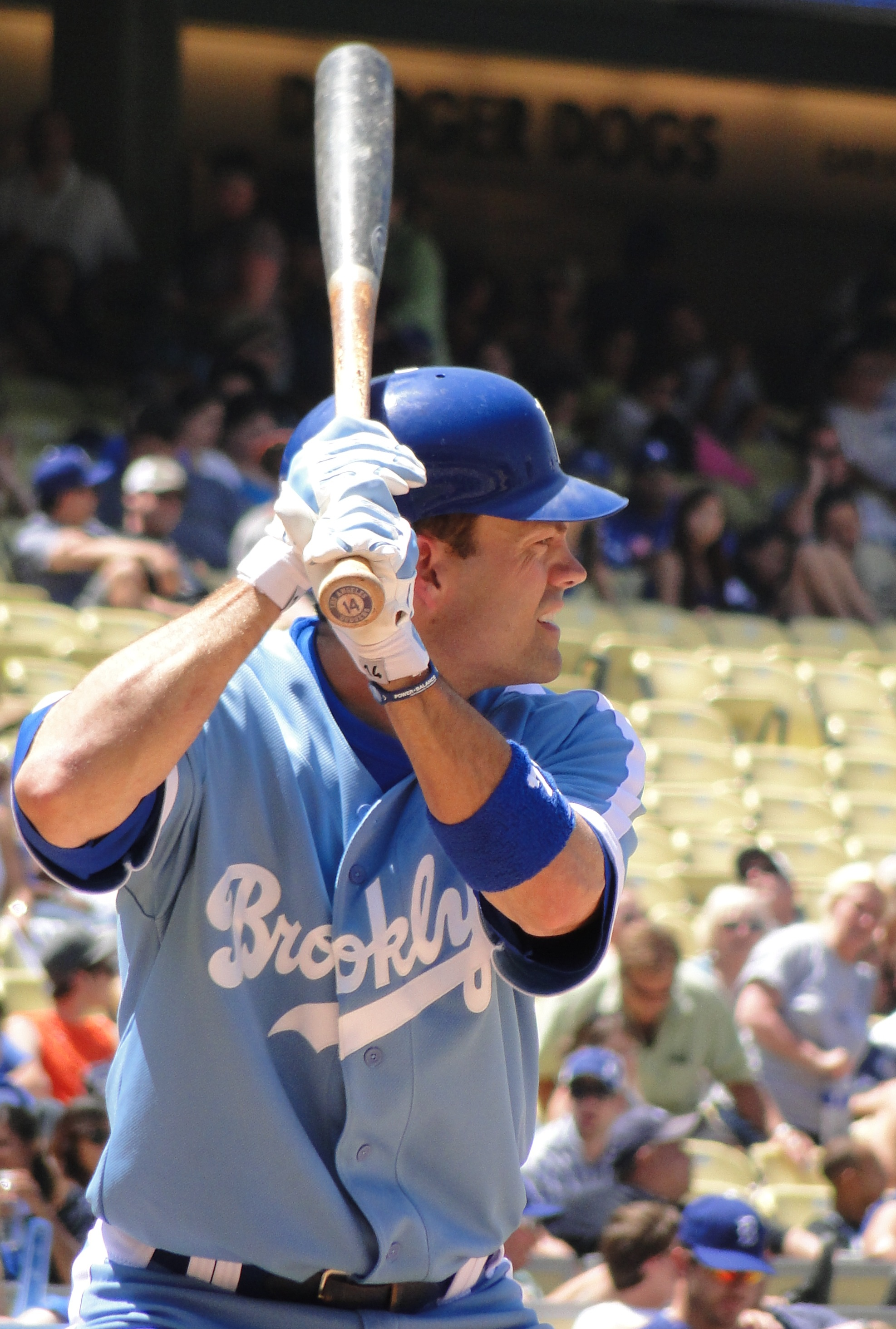 Jamey Carroll at bat